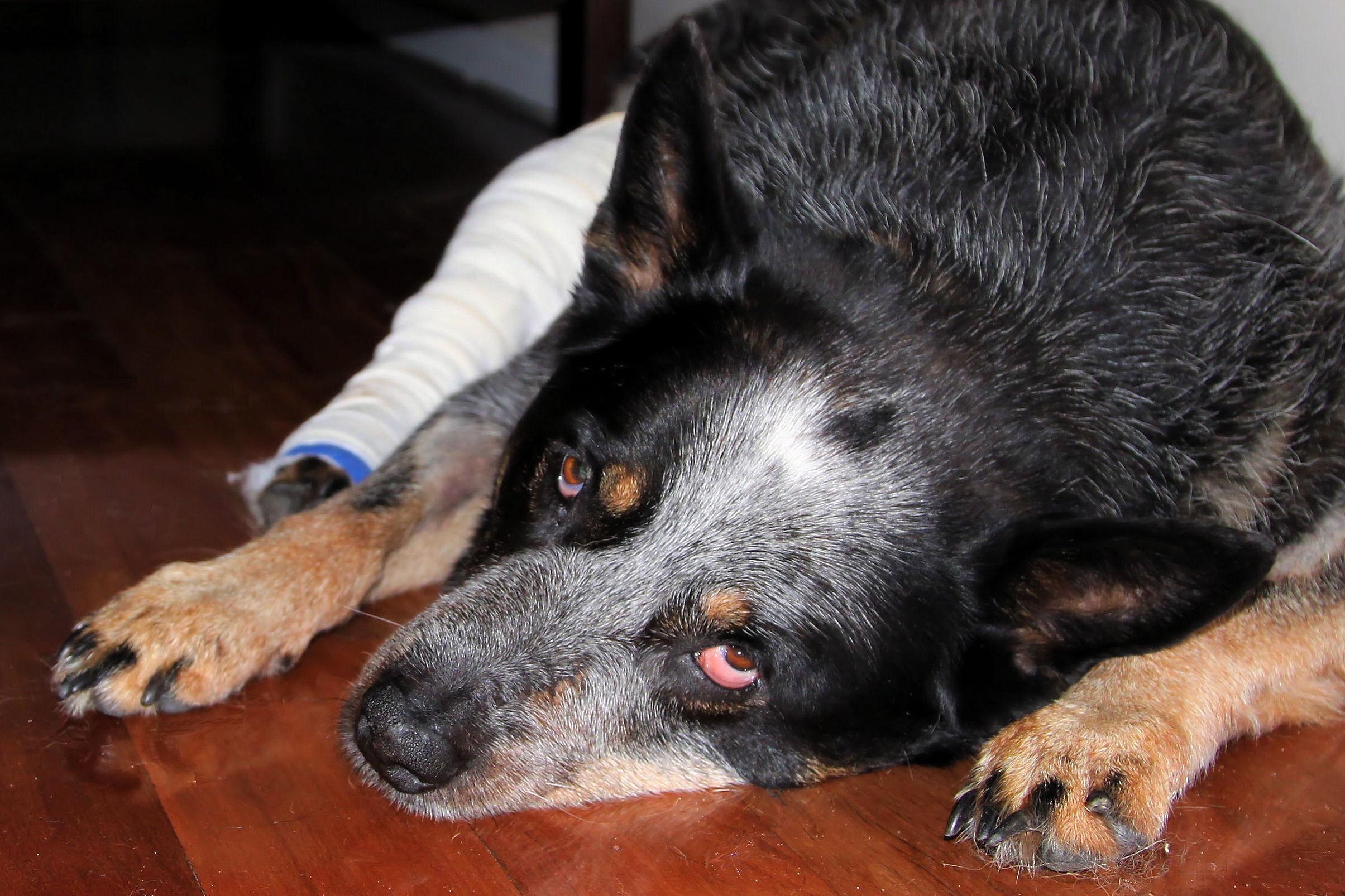 An Australian Cattle Dog with a bandaged right hind-leg.